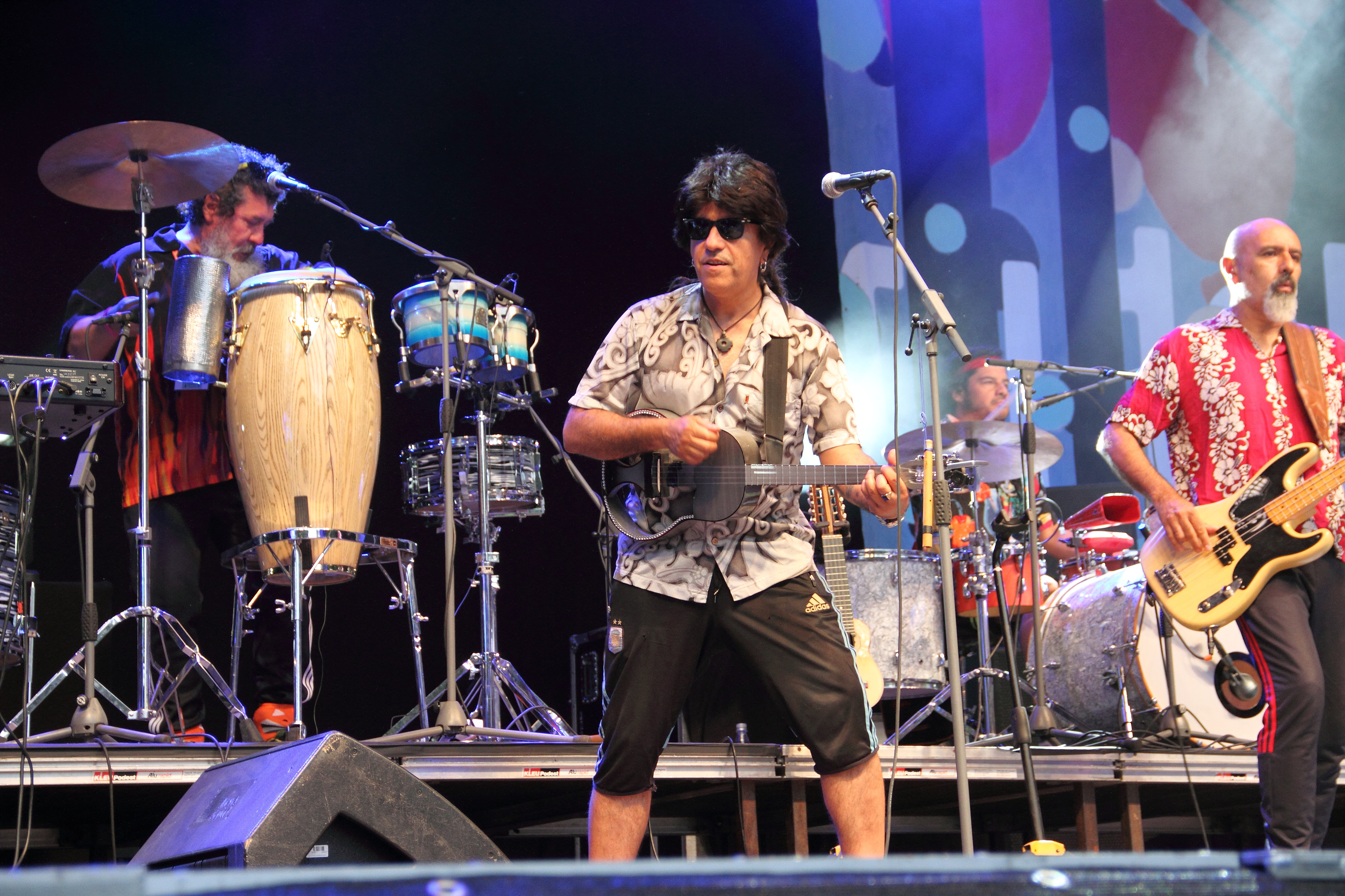 Chico Trujillo at Rudolstadt-Festival 2018.